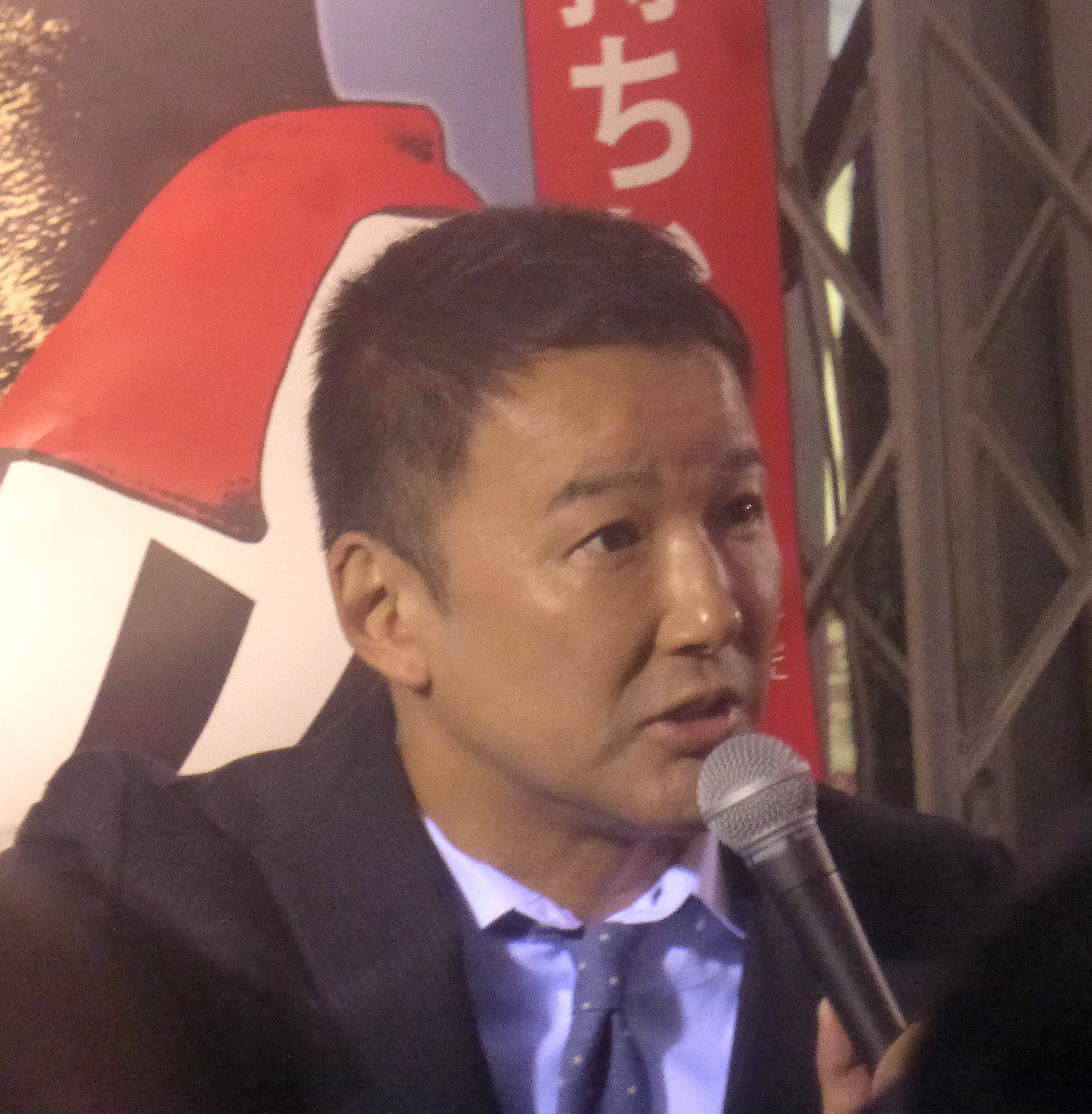 Taro Yamamoto in April 2018